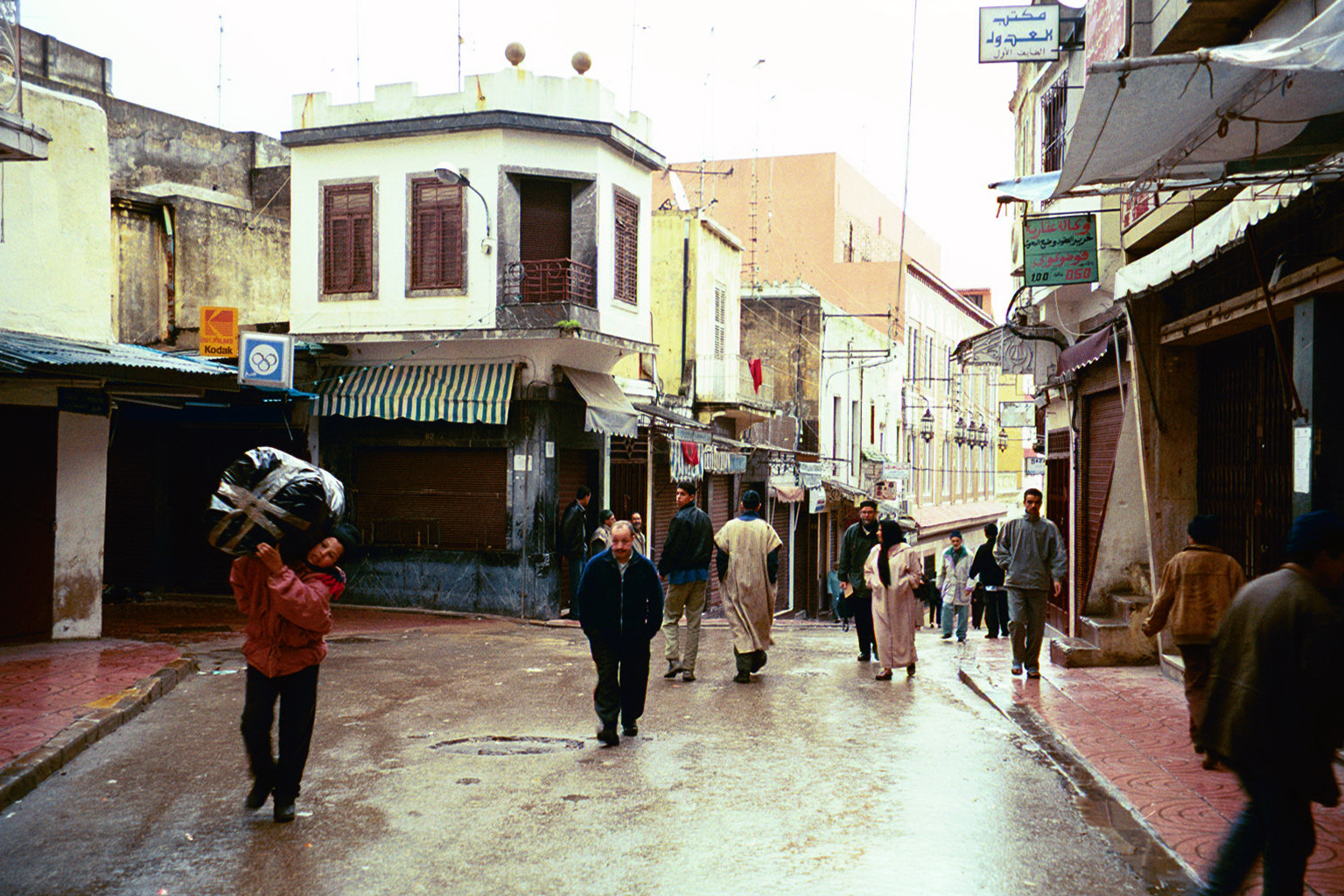 Tangiers, Morocco